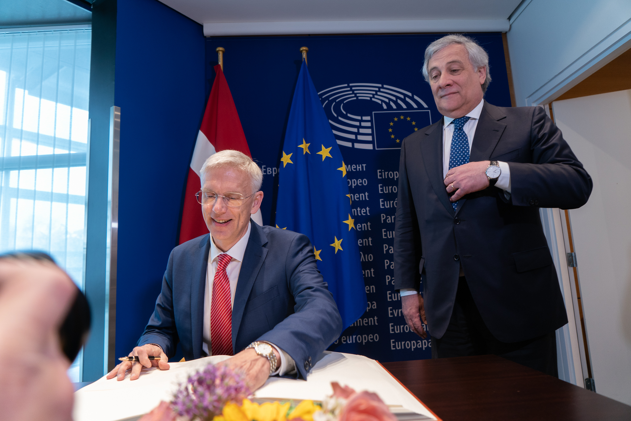 The EU needs to strengthen the basics, Latvian Prime Ministers Krišjānis Kariņš said in the debate on the Future of Europe, on Wednesday. Read our press release here: This photo is free to use under Creative Commons license CC-BY-4.0 and must be credited: "CC-BY-4.0: © European Union 2019 – Source: EP". No model release form if applicable. For bigger HR files please contact: webcom-flickr(AT)